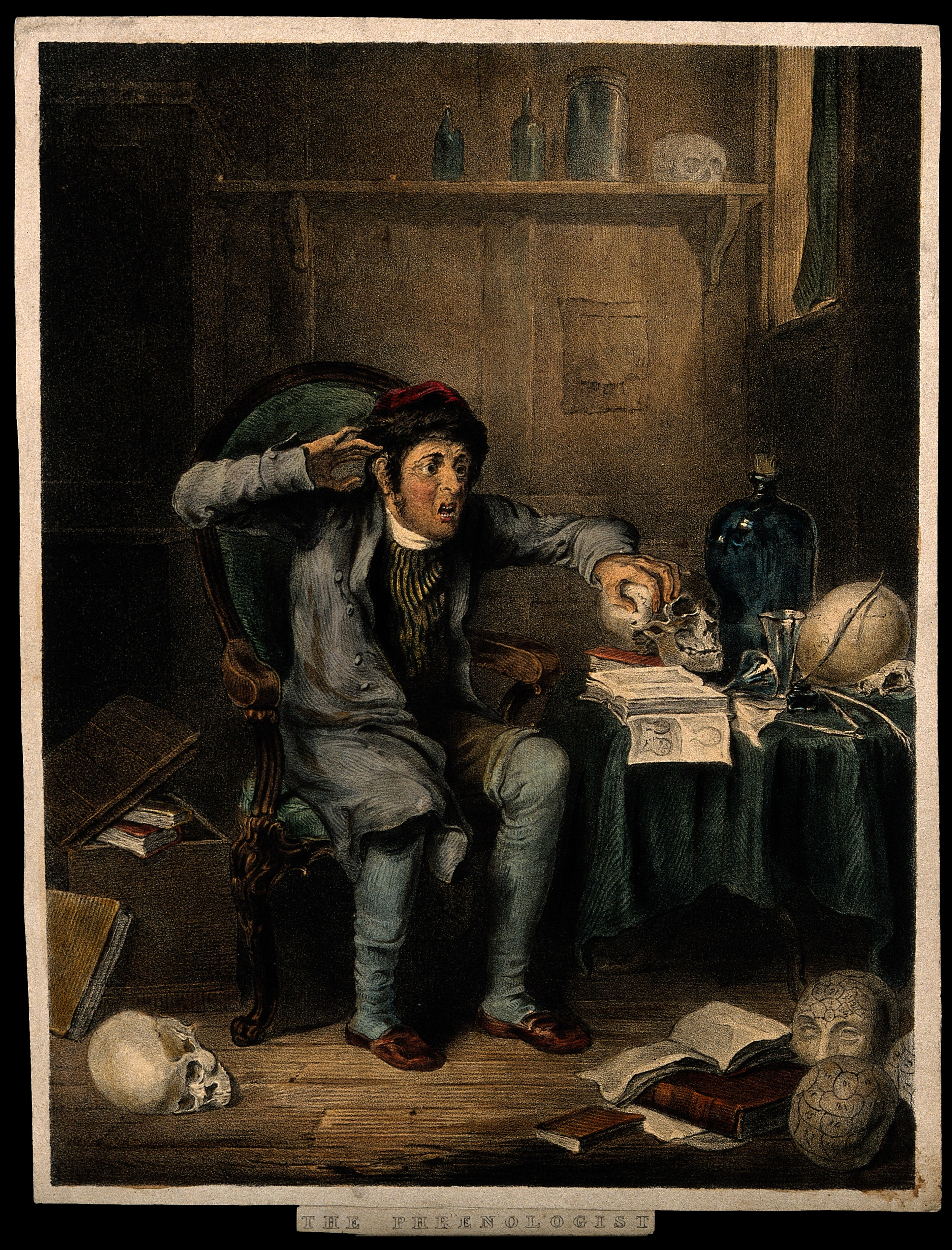 An anxious man comparing his own head to a skull, using the technique of phrenology. Coloured lithograph after T. Lane, c. 1825. Iconographic Collections Keywords: Theodore Lane